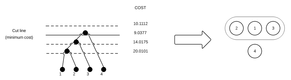 Cutting of the clustering tree